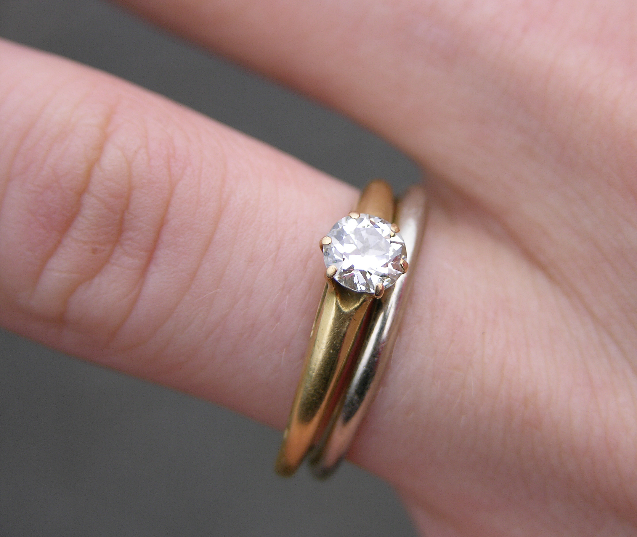 A White gold wedding ring and a single diamond, gold banded engagement ring with a six-prong Tiffany mount.